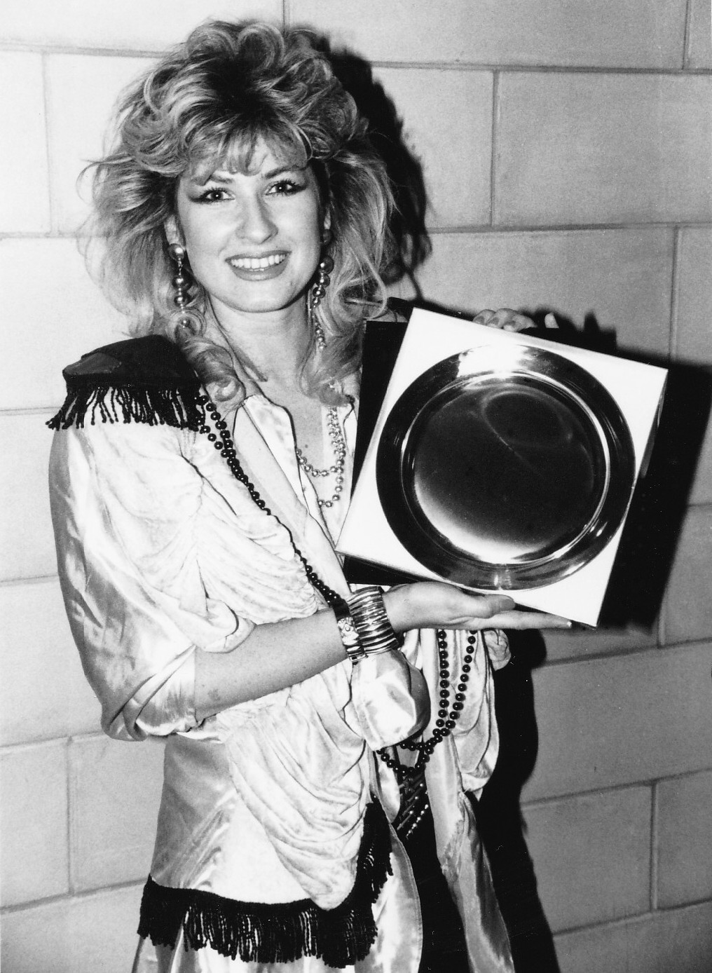 Beata Kozidrak won the Midnight Sun Song Festival in Lahti City Theatre, Finland 1989